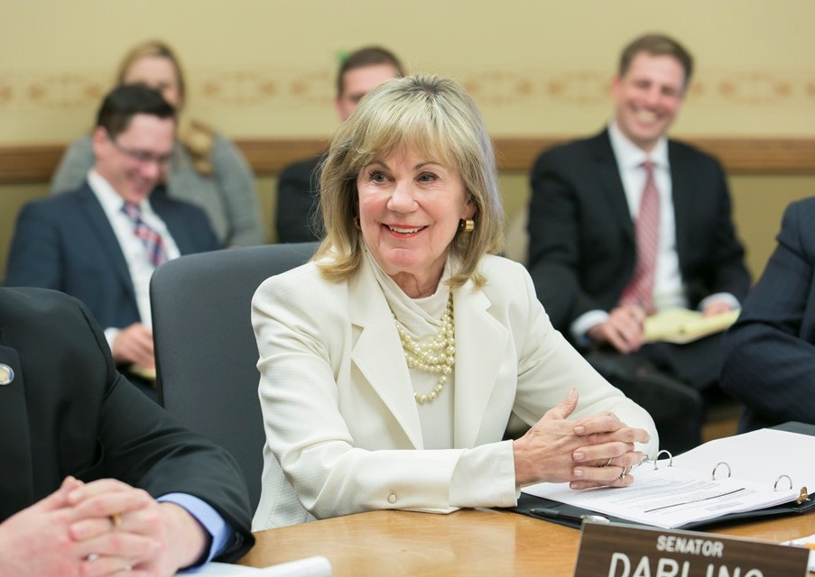 Darling during committee